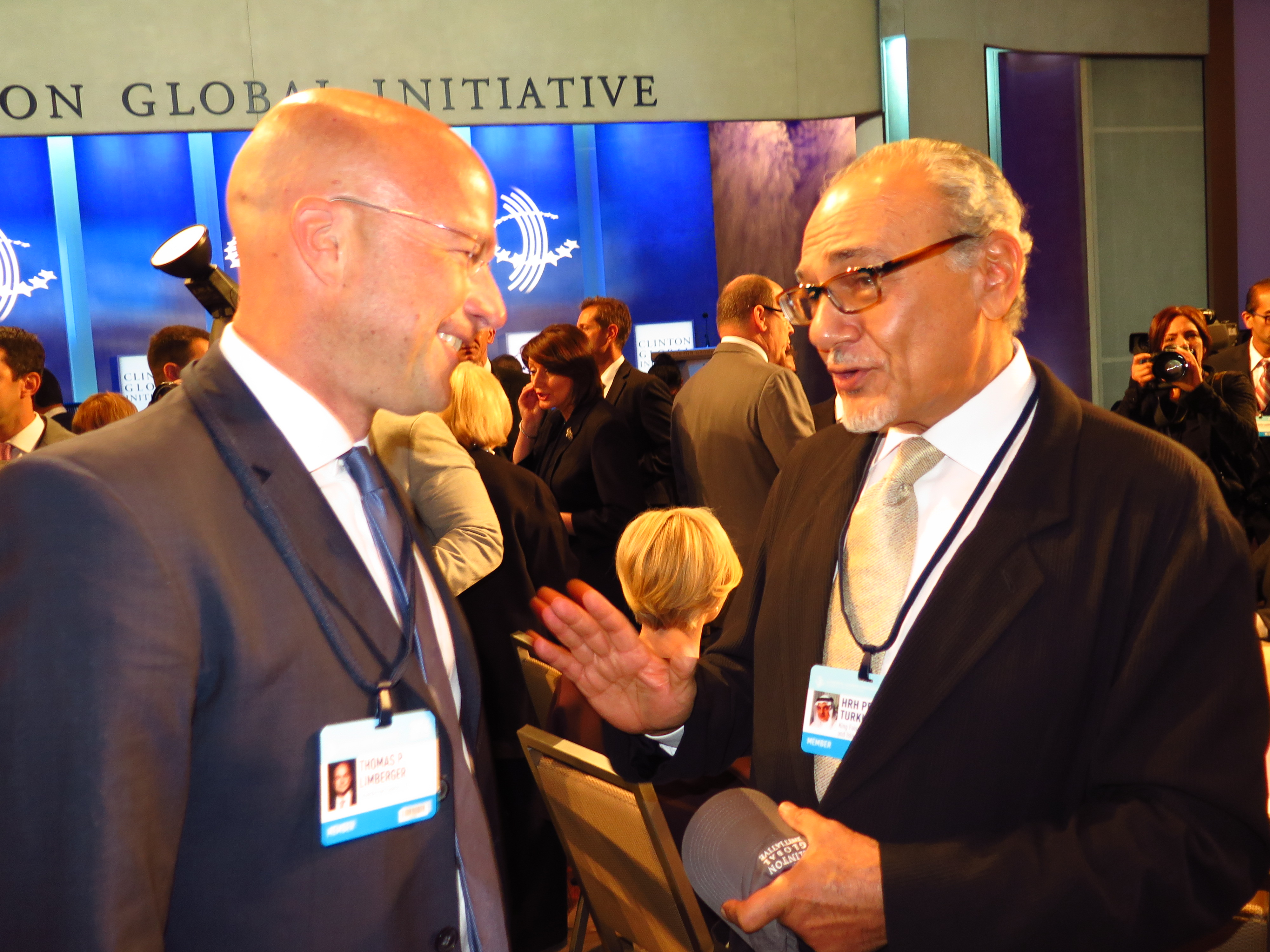 HRH Prince Turki ibn Faisal Al Saud with Thomas Limberger- Clinton Global Initiative (CGI) 2014